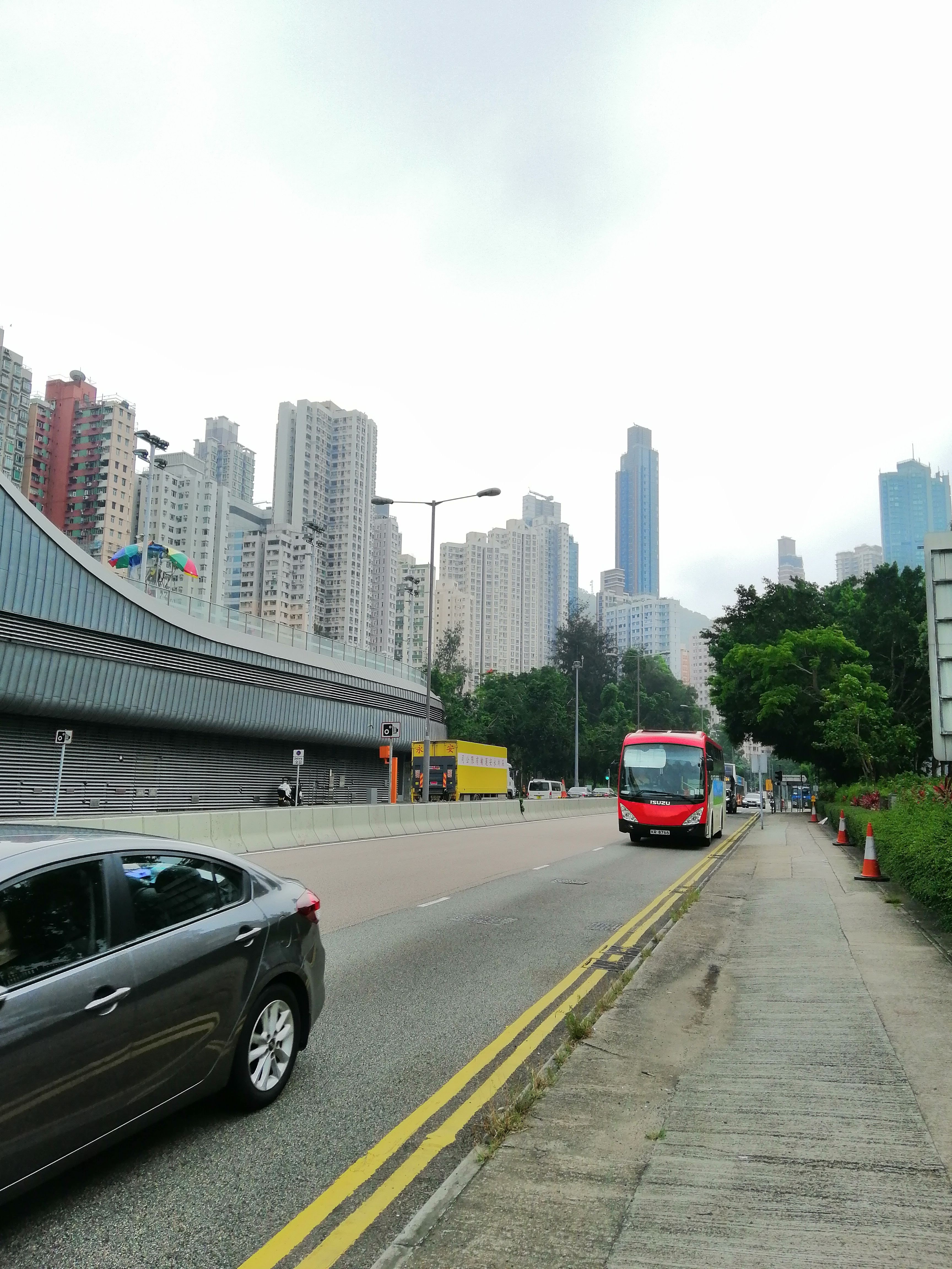 Scenery of Hong Kong Island